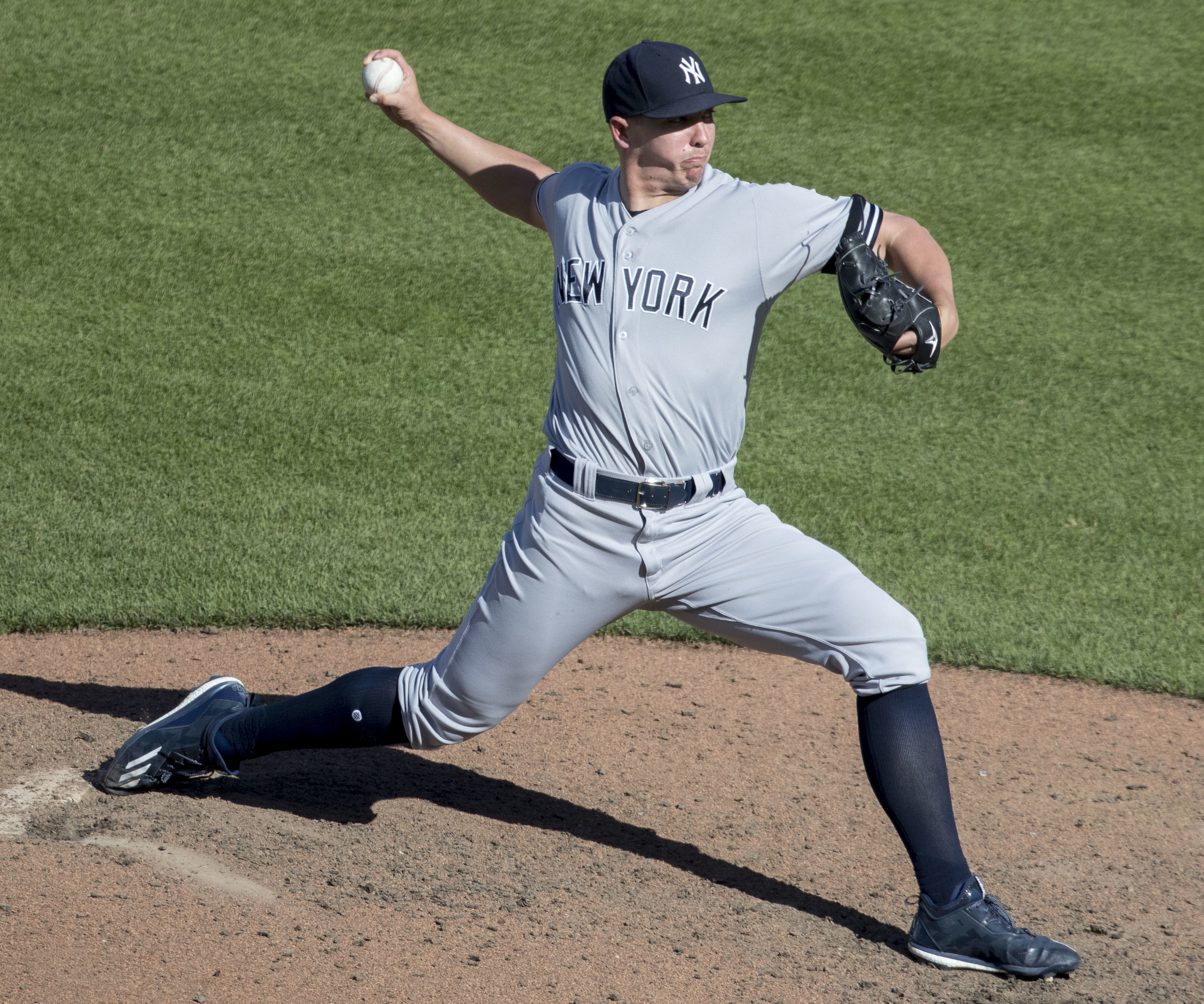 Chad Green of the New York Yankees delivers a pitch during a 2017 game at Camden Yards in Baltimore